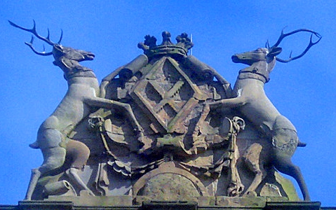 Arms of Hardwick: Argent, a saltire engrailed azure on a chief of the second three cinquefoils of the first, as borne here in a lozenge shield (appropriate for a female armiger) by Elizabeth Hardwick (c. 1527–1608), Countess of Shrewsbury, and displayed on the parapet above the main entrance of Hardwick Hall in Derbyshire, built by her. Crest: On a mount vert a stag courant proper gorged with a chaplet of roses argent (Source: Burke's General Armory, 1884) 1629257. Supporters on each side are the Cavendish Stags, borne by her husband Sir William Cavendish (died 1557), Treasurer of the King's Chamber, now Dukes of Devonshire. These heraldic emblems appear frequently within Hardwick Hall.